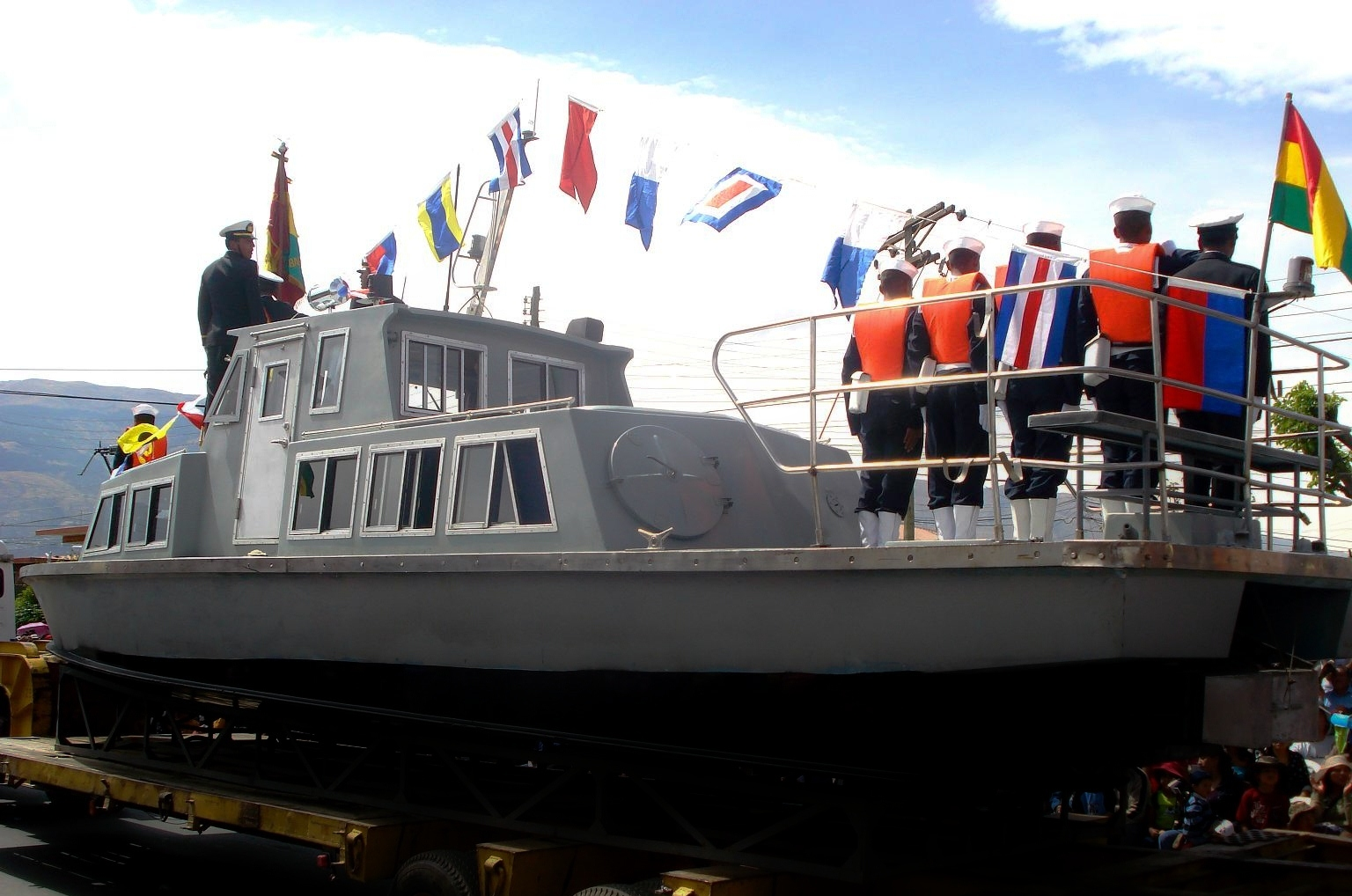 Patrol boat Bolivian Navy, towed by a truck during a parade.